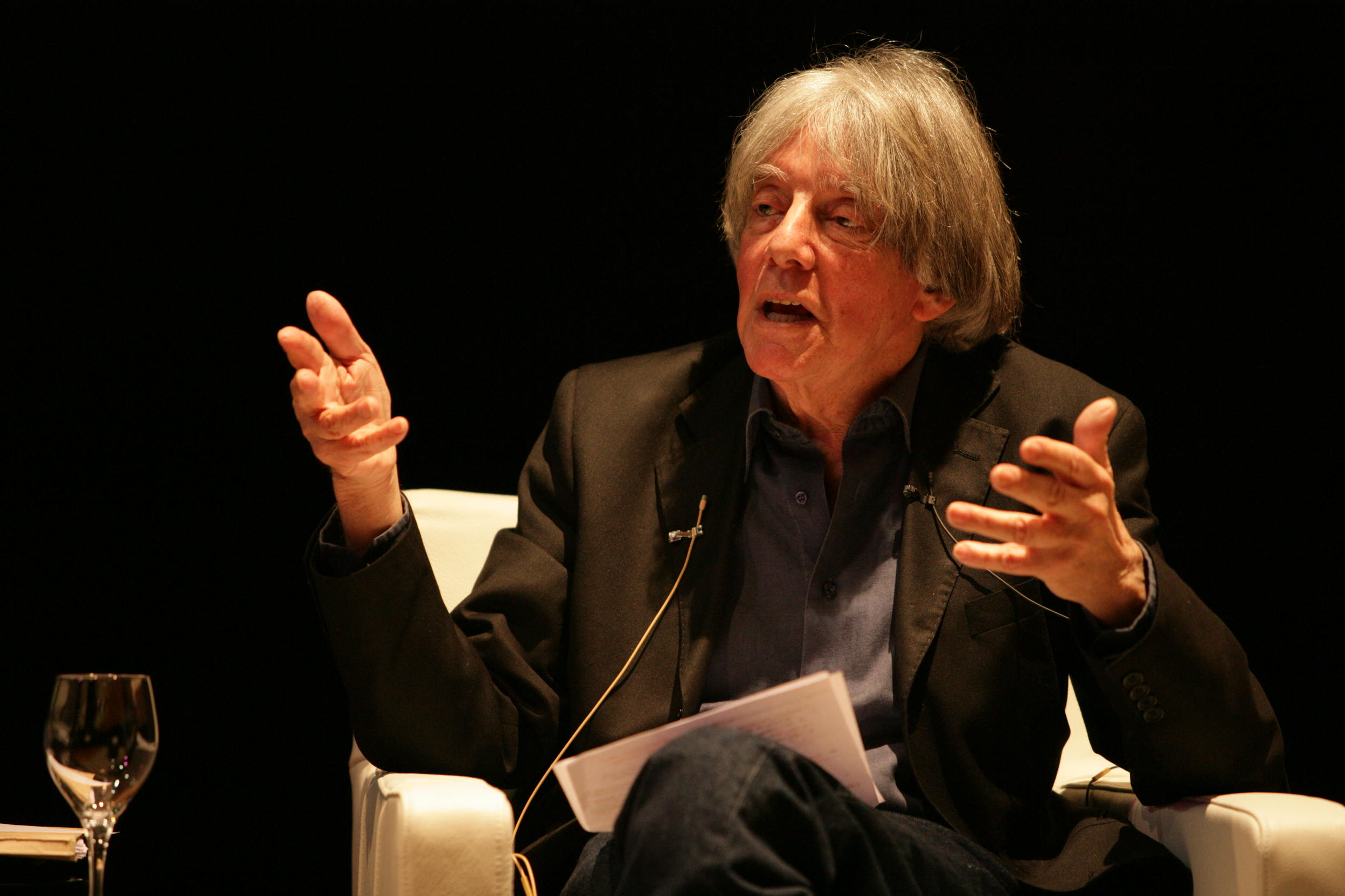 André Glucksmann (born 19 June 1937) is a French philosopher and writer, and member of the French new philosophers.